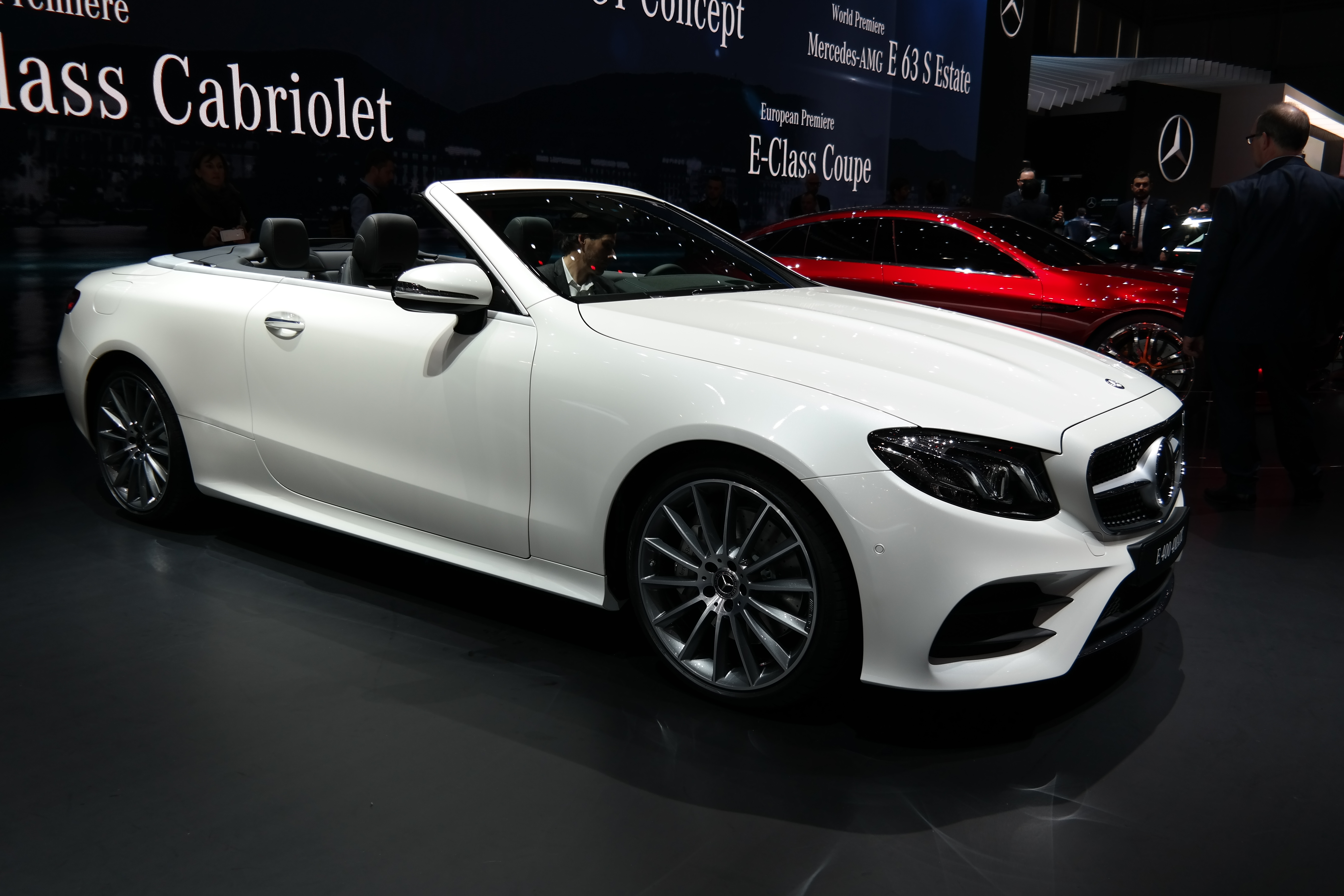 Geneva Motor Show 2017 (photo taken on the first press day)